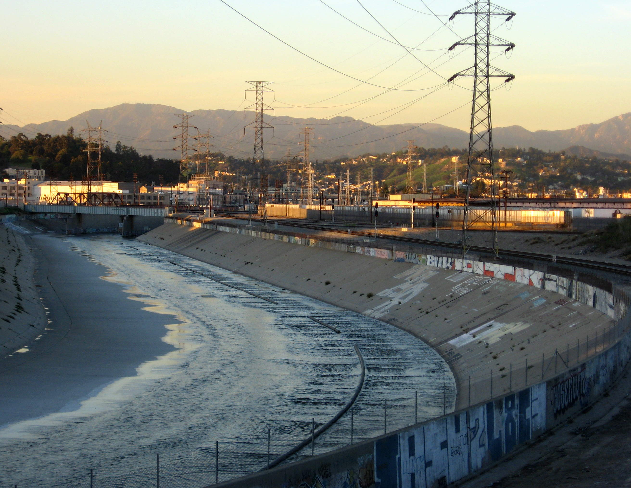 The Los Angeles River flowing in Downtown Los Angeles, California.